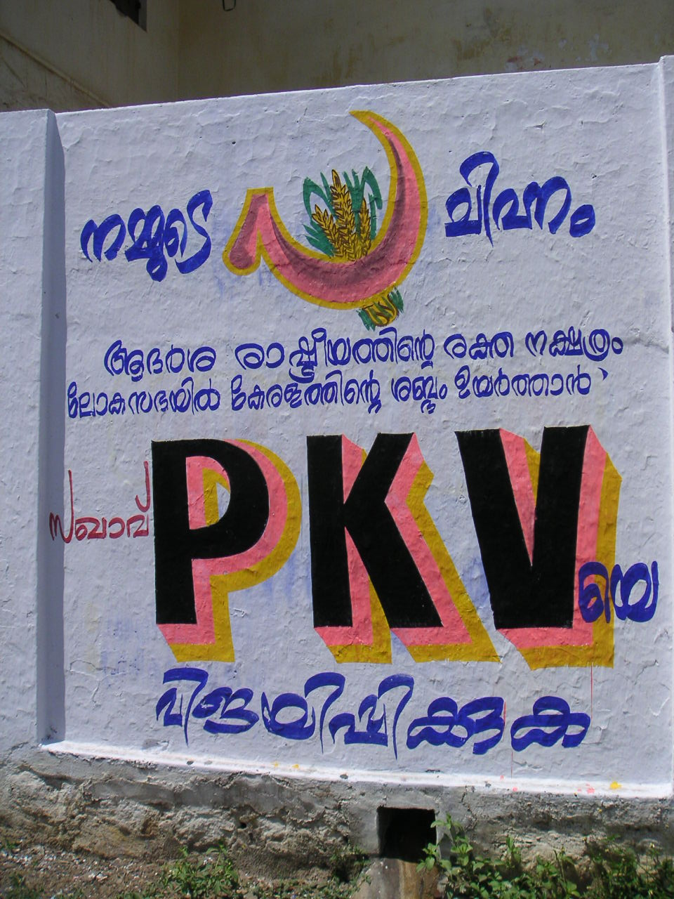 Communist Party of India electoral propaganda for P.K. Vasudevan. 2004. Photo: Soman